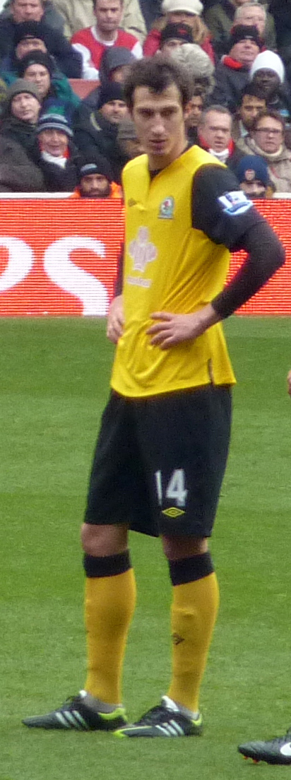 Radosav Petrović playing for Blackburn Rovers FC.